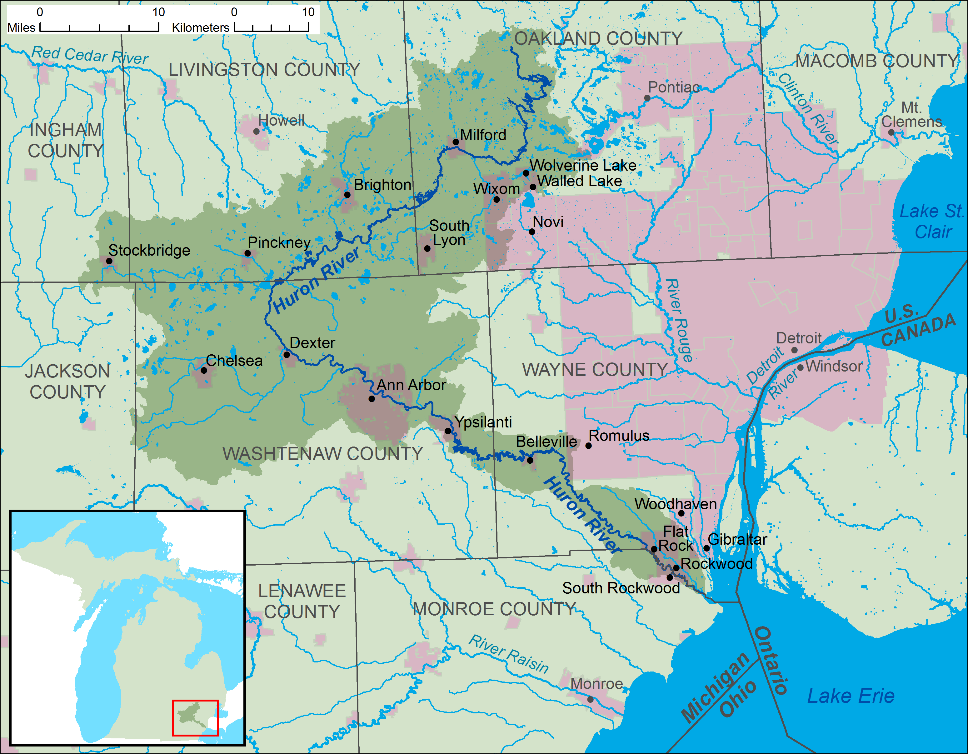 A map of the Huron River and its watershed (USGS HUC-8 code 04090005) in southeastern Michigan.